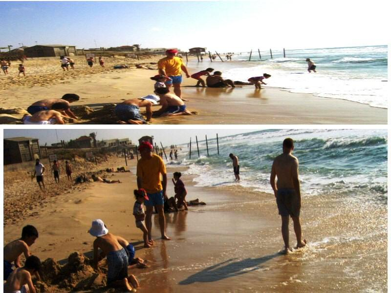 The_beach_of_neve_dekalim